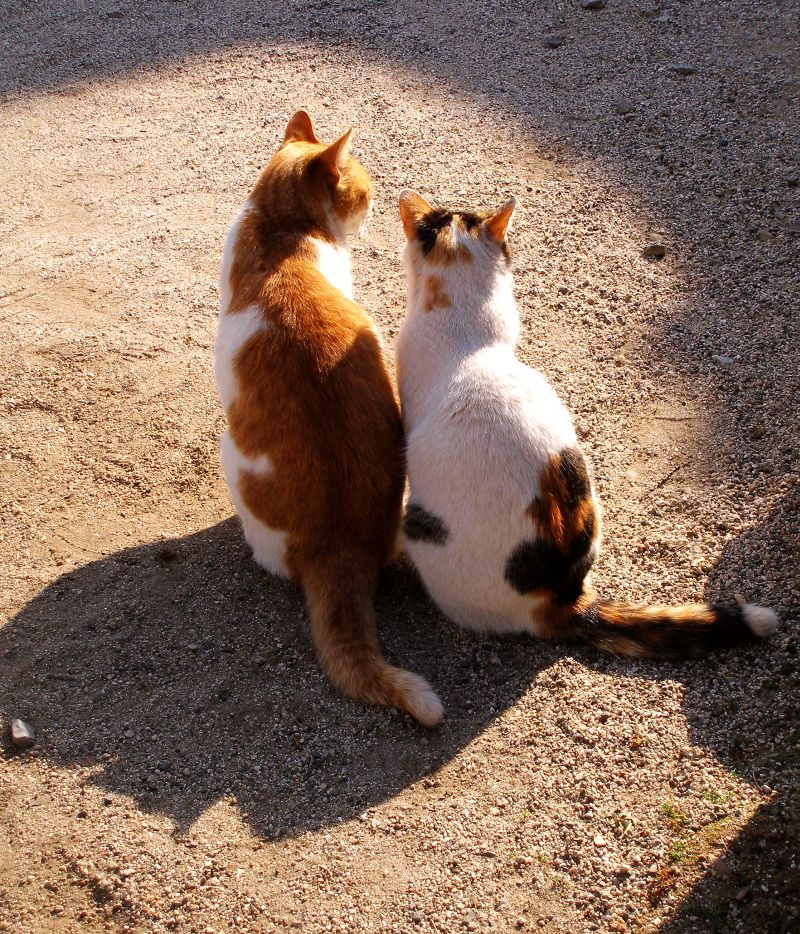 A pair of female cats showing diferent fur pattern colors due to inactivation on X chromosome during embrional development.